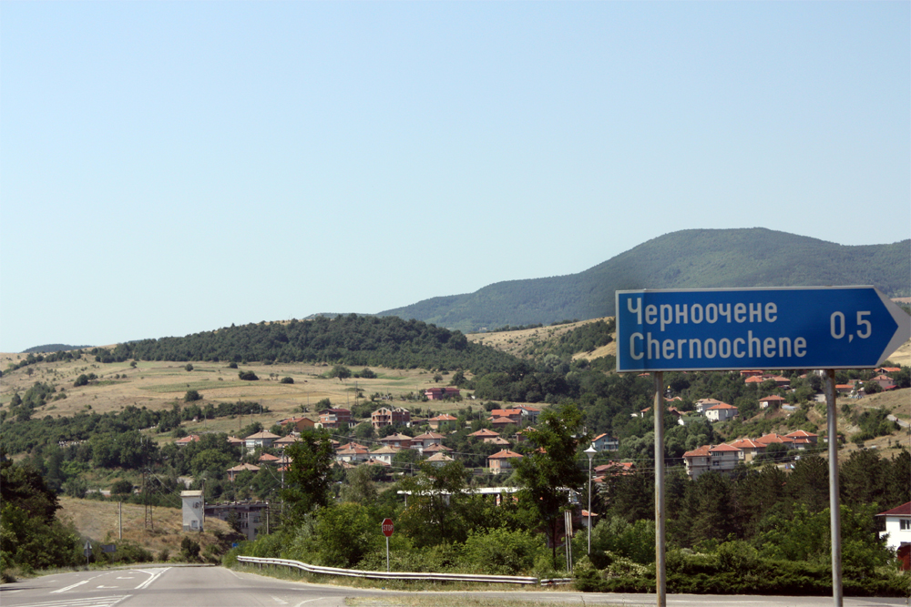 View to Chernoochene village from the Road Plovdiv-Kardzhali